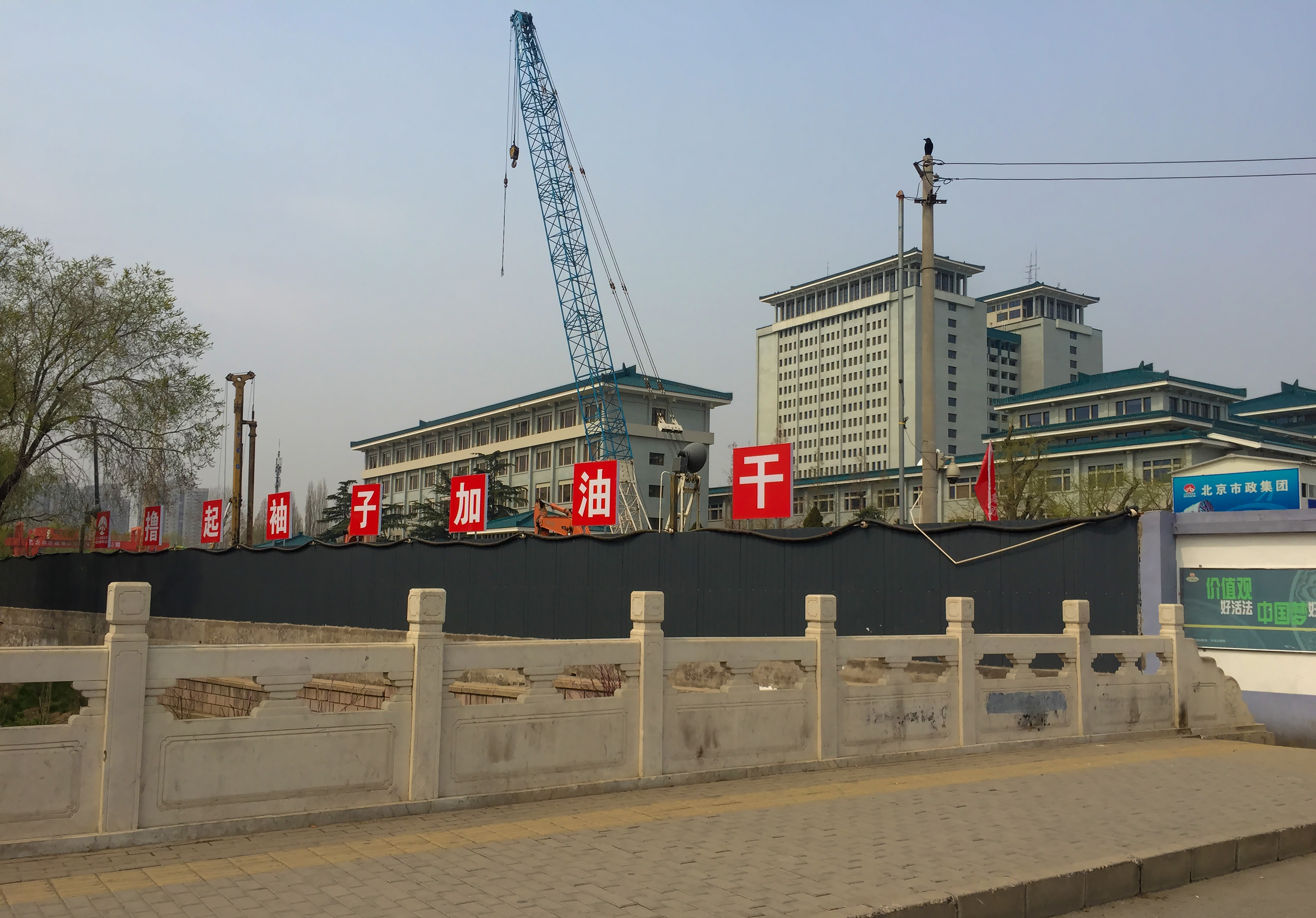 It's that slogan again.